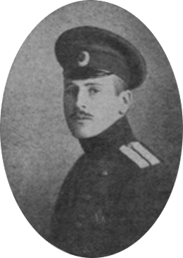 Meshcherinov, Vyachseslav Aleksandrovich